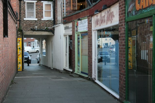 Alleyway to North Street One of several alleyways connecting North and High Streets.